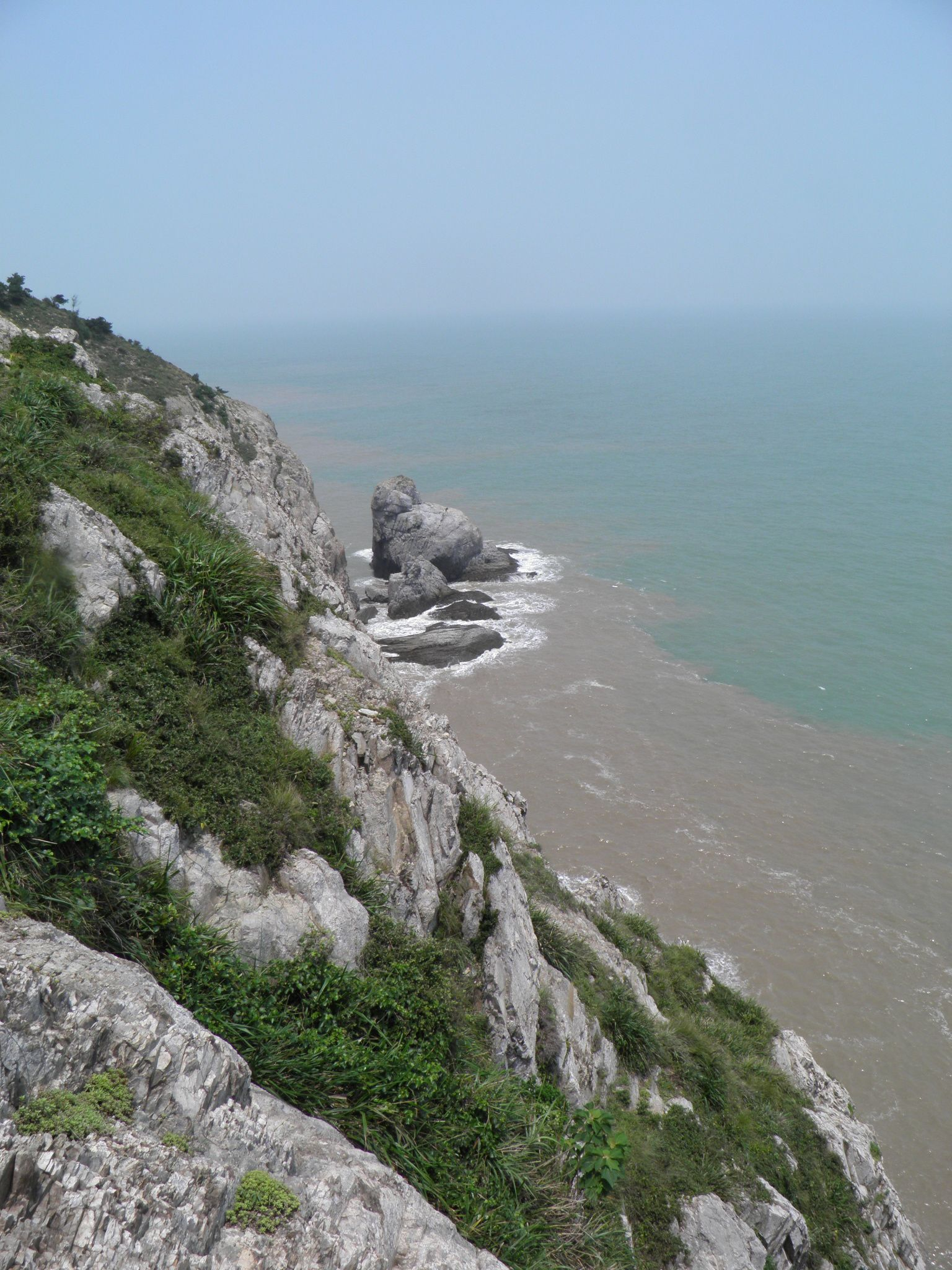 Daludao (Big deer island), Yuhuan, Zhejiang province, PR China